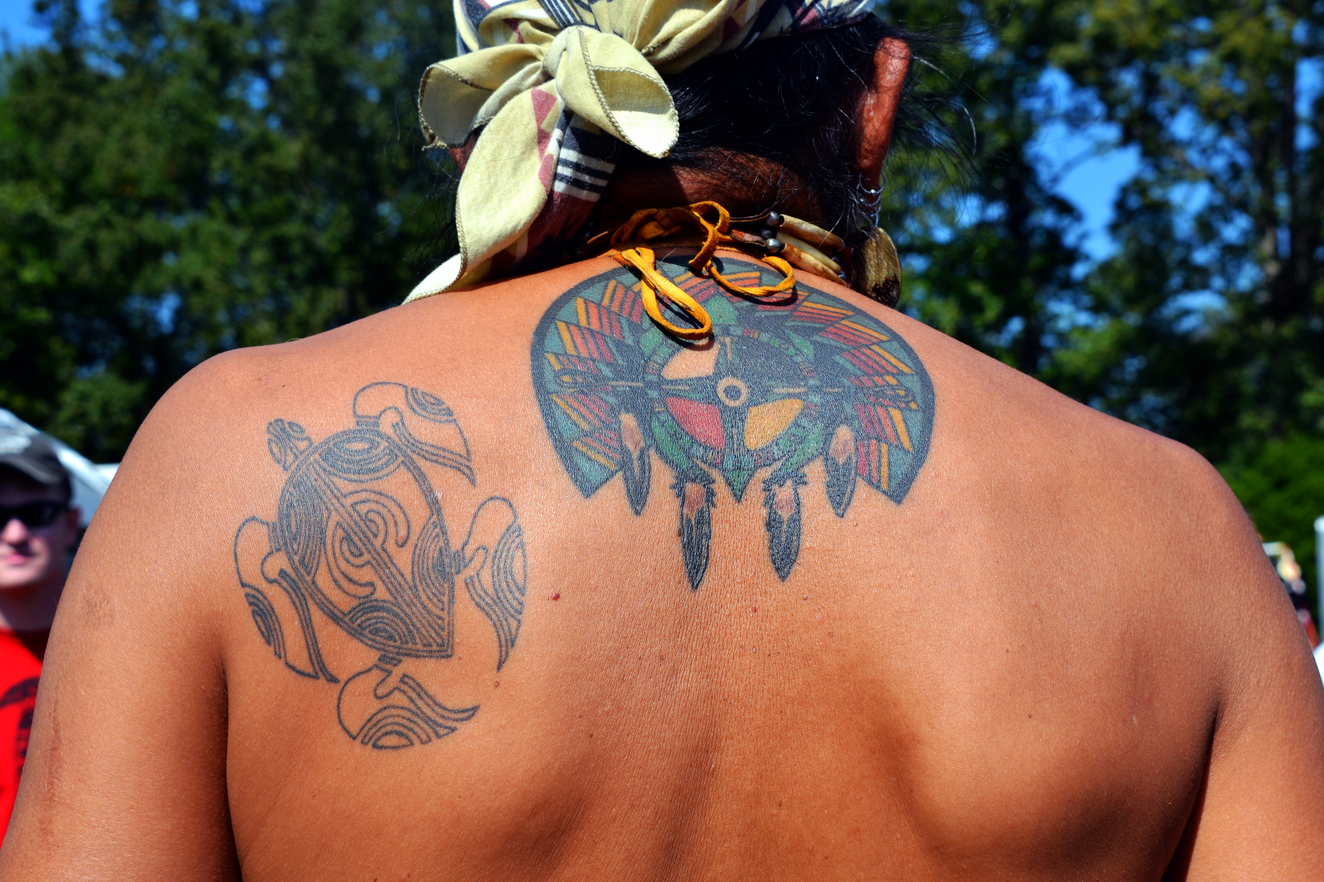 Robert is a friend of mine, part of the Nansemond Tribe. He was putting on his regalia and I saw these tattoos for the first time. He designed the turtle.